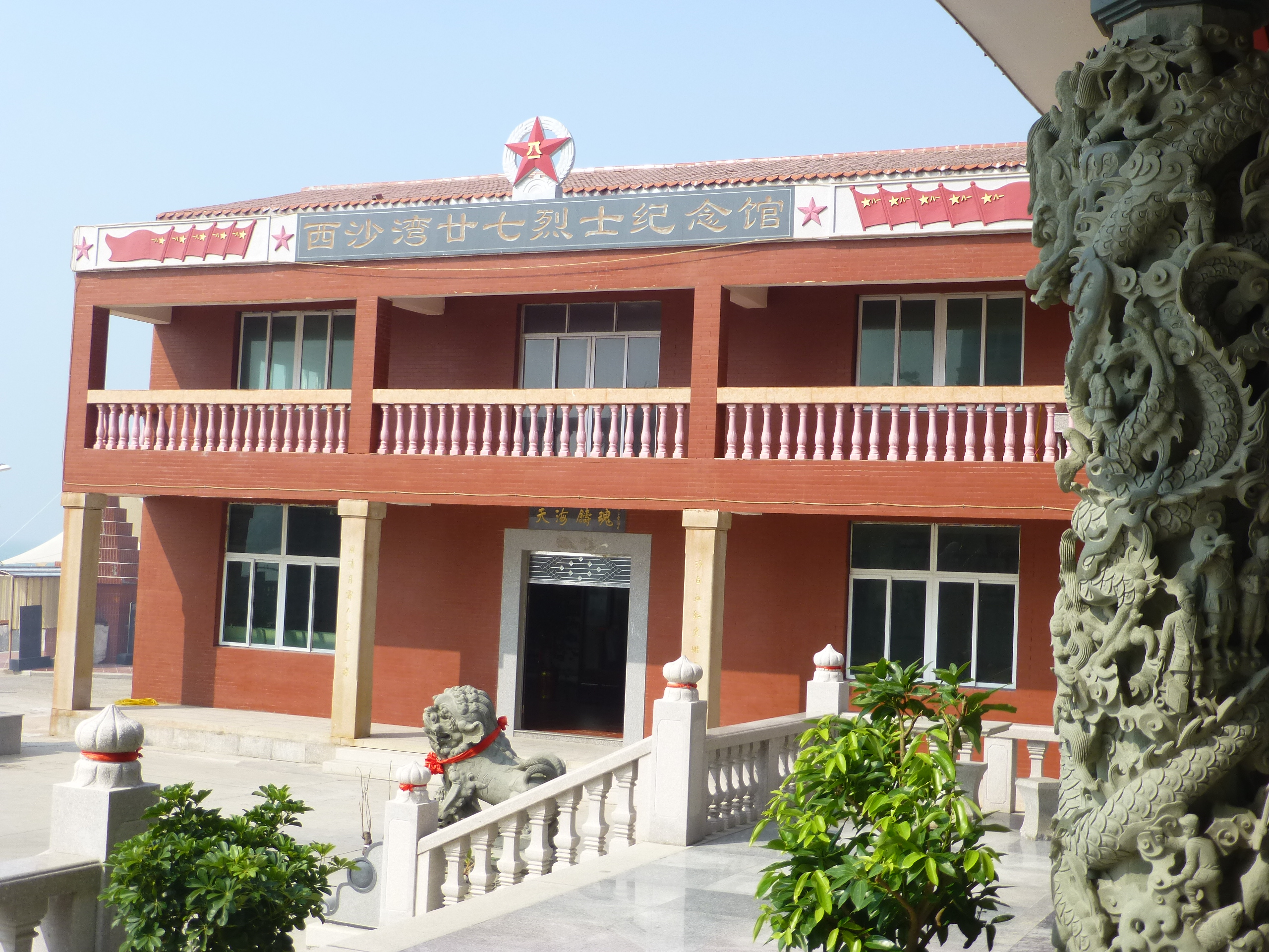 Memorial Hall of the Xishawan 27 Fallen Heroes (西沙湾27烈士纪念馆) and the Temple of People's Liberation Army in Chongwu, Huian, Fujian, China. It commemorates soldiers killed here in the fall of 1949, in a battle with Guomindang's aircraft. Located at the eastern end of the West Sand Bay Beach, next to Chongwu Sea Swimming Club.